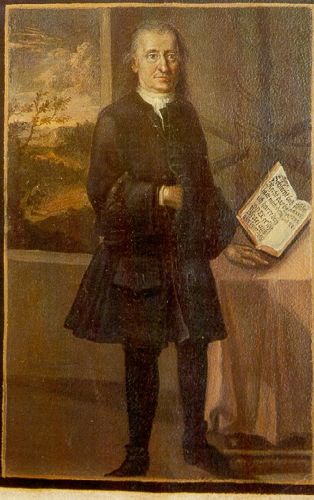 The miner and protestant religious activist from Salzburg Joseph Schaitberger (1658-1733)